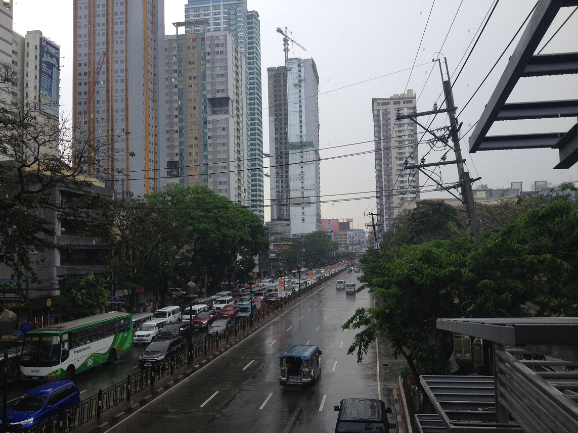 España Boulevard towards Lerma Street and Recto Avenue, in front of UST